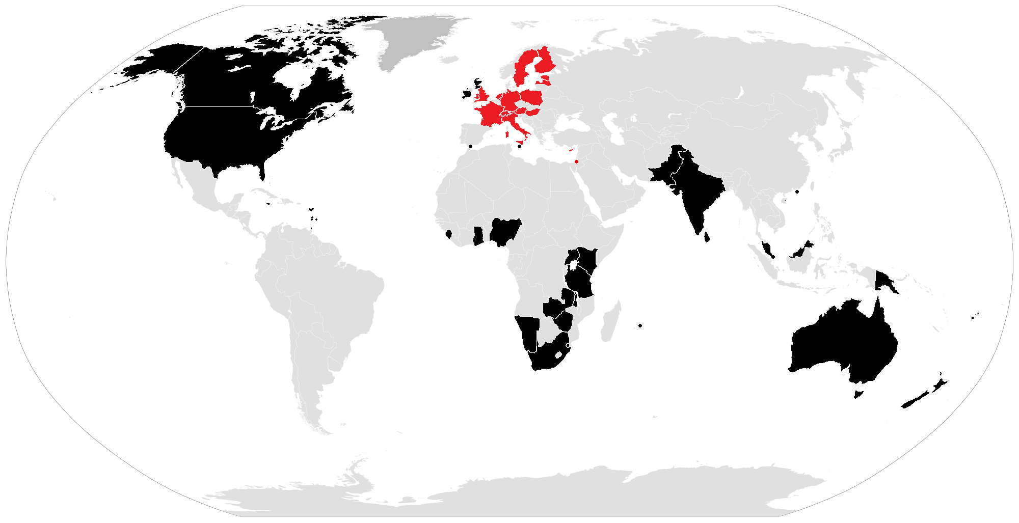 map of the global presence of JOIN Red: JOIN member organisations Black: Other St John organisations with cooperation links